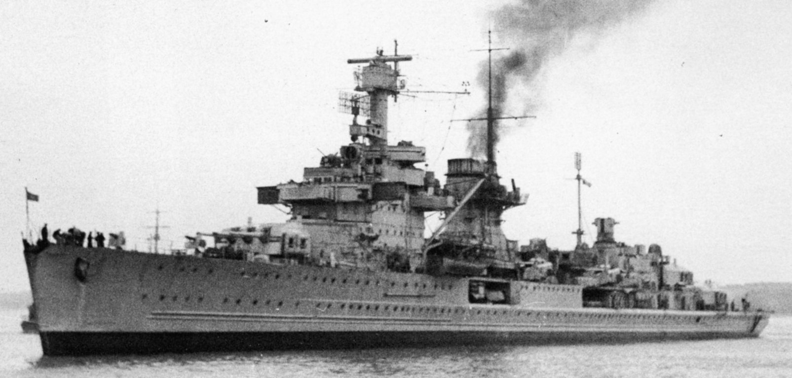 The former German light cruiser Nürnberg after being ceded to the Soviet Union under the terms of the Potsdam Conference. The light cruiser Nürnberg, launched in 1934, was renamed Admiral Makarov when in USSR service.